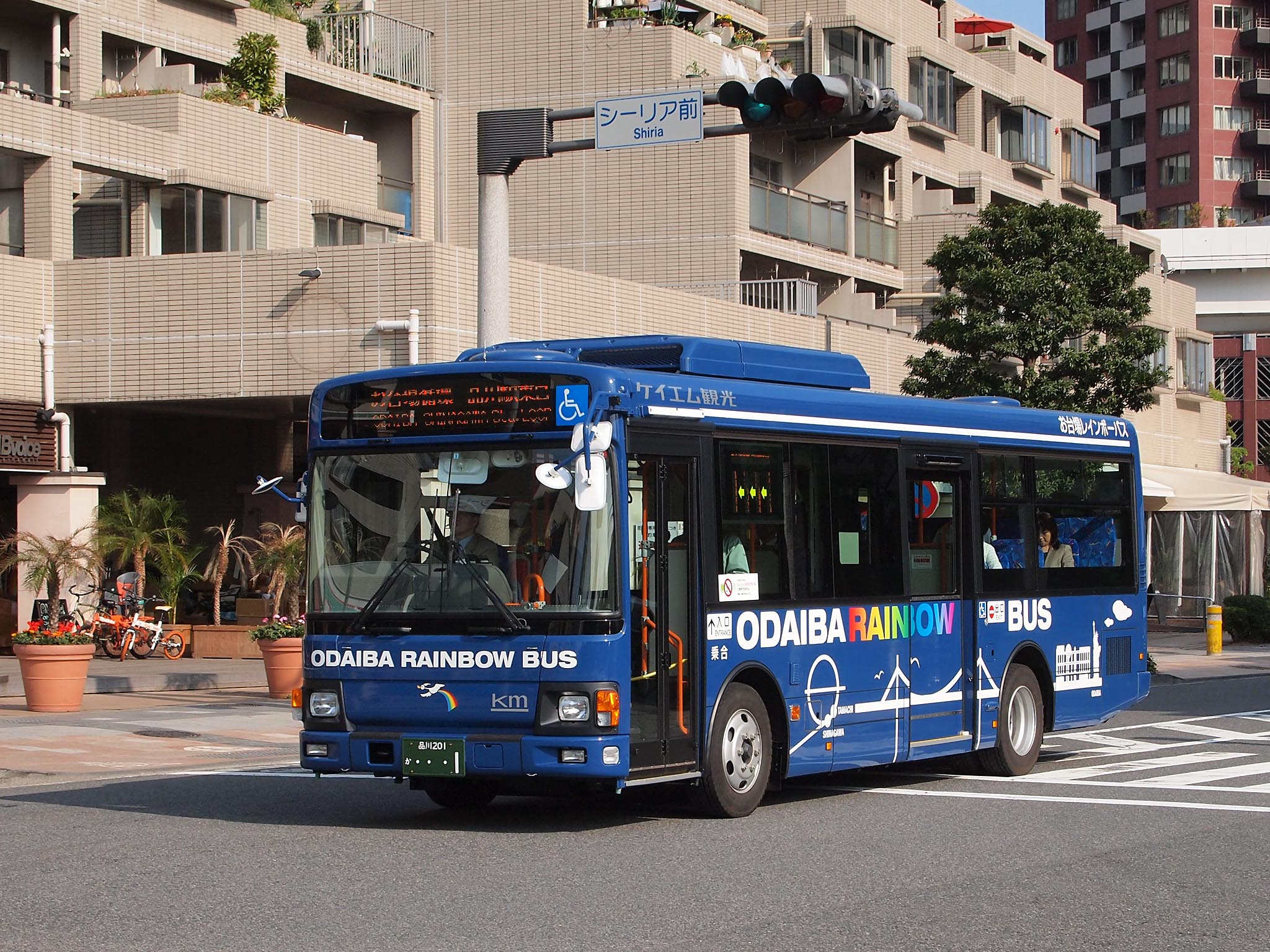 Odaiba Rainbow Bus, started since April 19, 2012, operated by km Kanko. Model: HINO Rainbow II SDG-KR290J1 License plate: TKS201 KA---1 Place: Searea Odaiba, Minato Ward, Tokyo japan